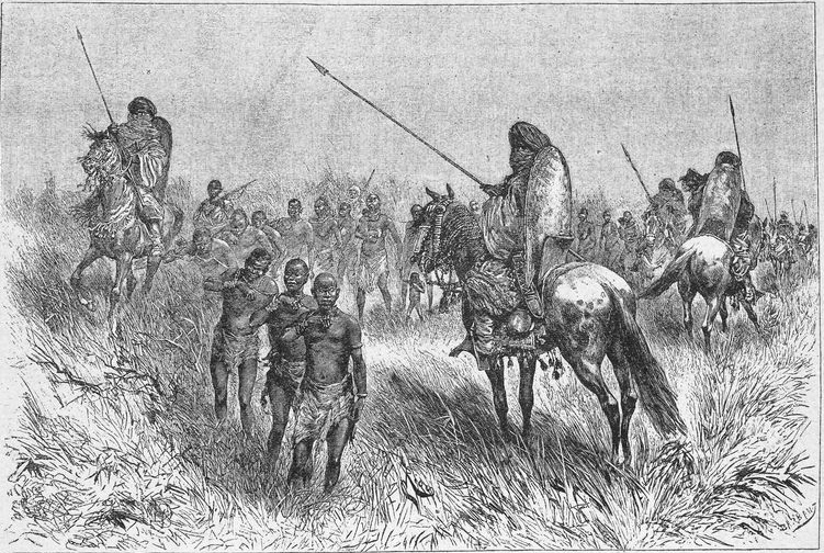 African cavalry, Heroes of the Dark Continent